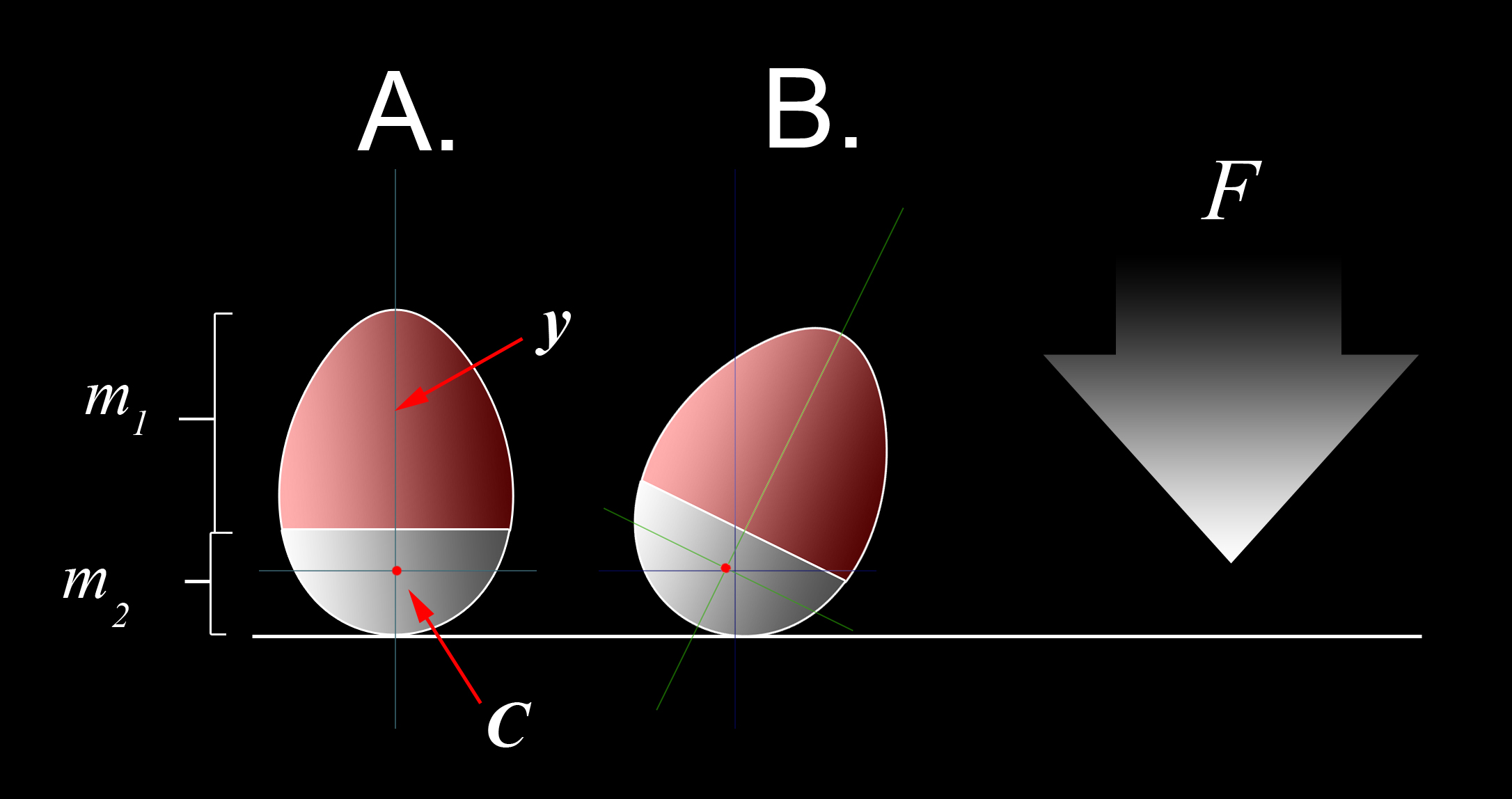 Illustration of the physics principles by which a "Weeble" roly-poly toy operates. A=position of mechanical equilibrium; B=position of mechanical instability; F=gravitational force; y=vertical axis; m1=low-density mass; m2=high-density mass; C=centroid. Note that between positions A. and B. that C raises slightly and becomes off-center.